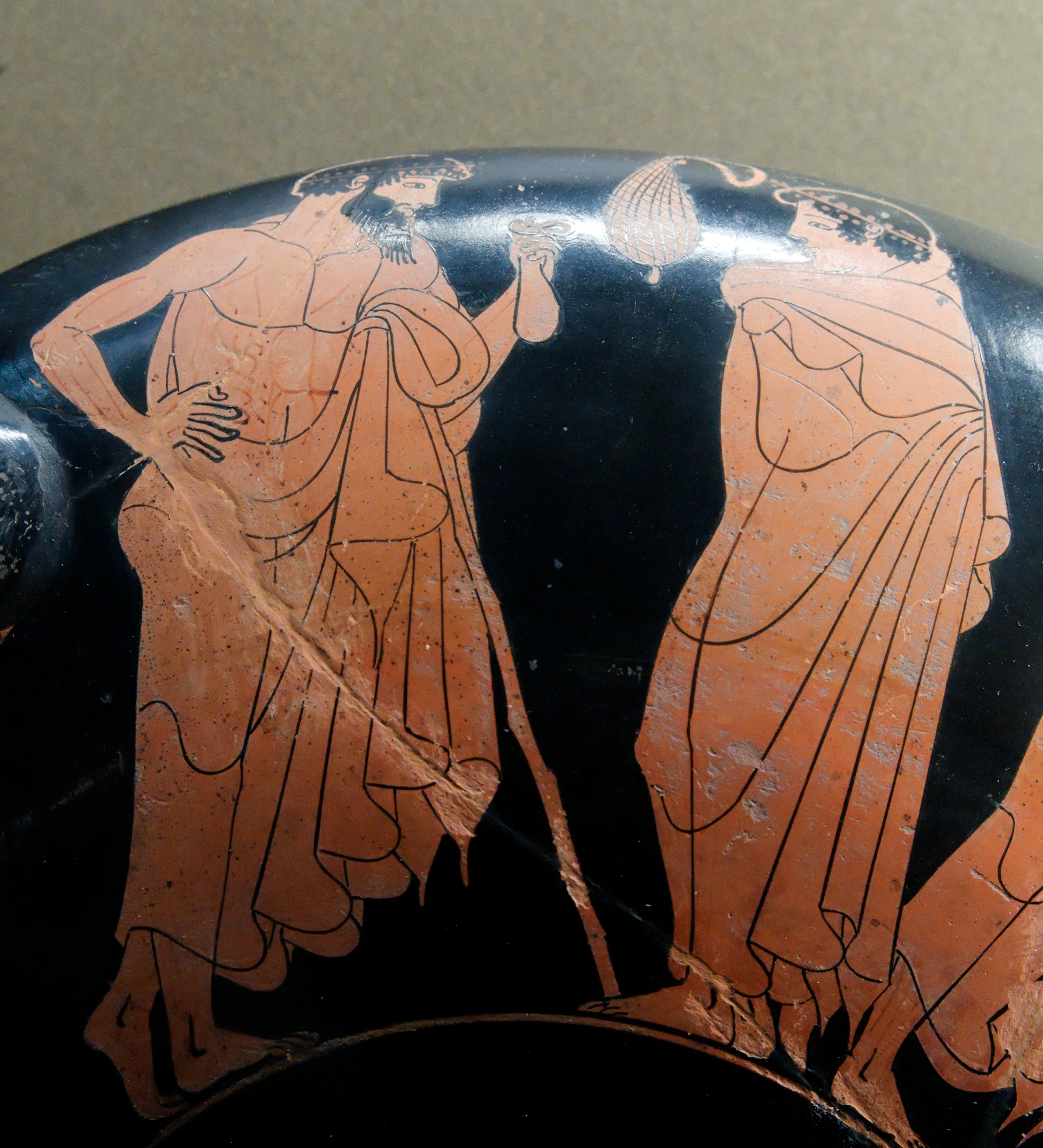 A bearded man offers a boy money in return for sexual favours. Detail of the exterior of an Attic red-figure kylix, ca. 480 BC. From Vulci.